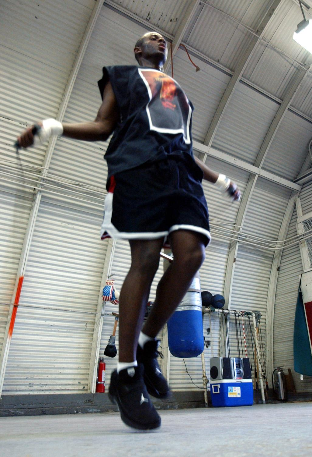 Warming up.